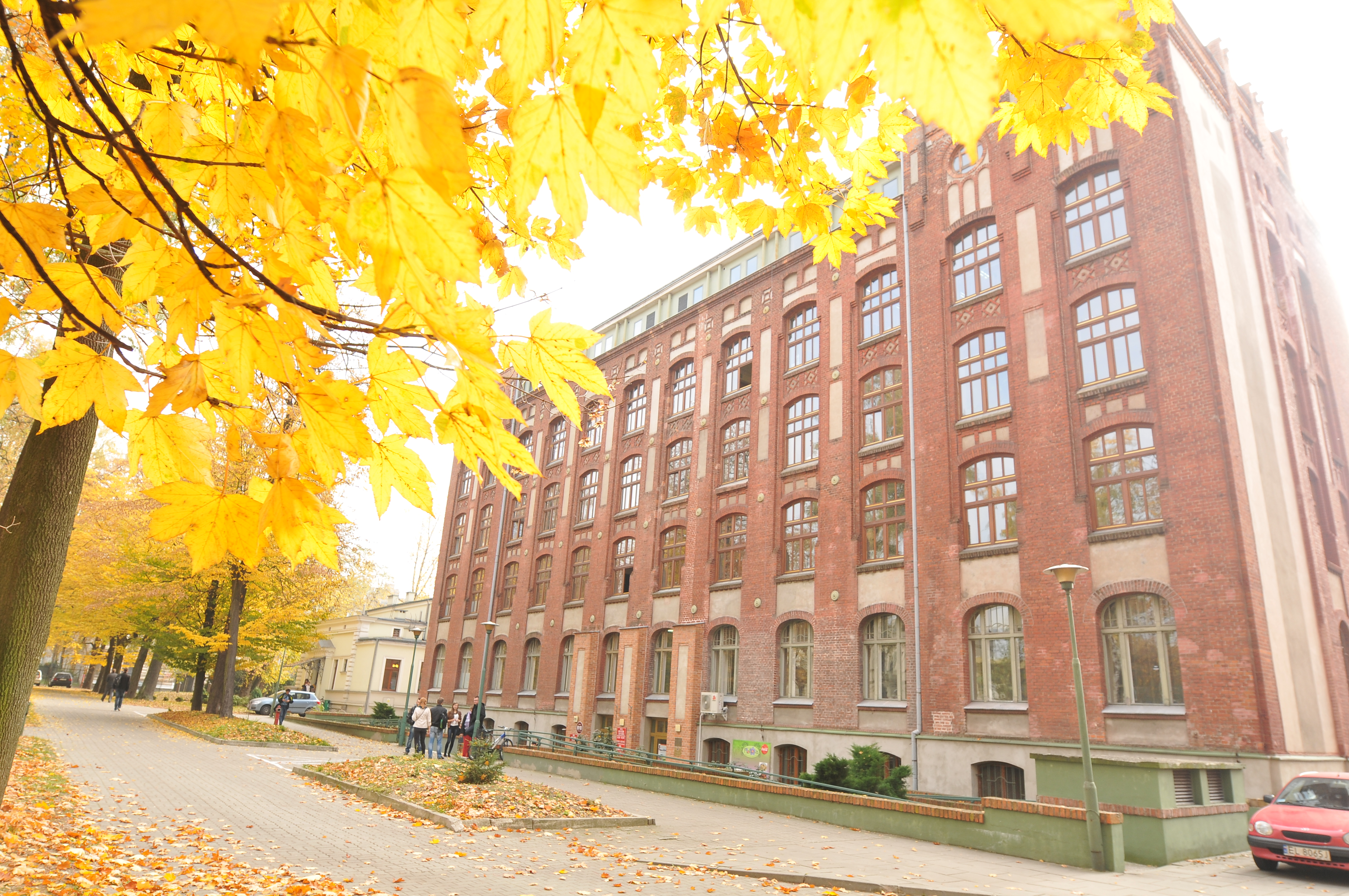 One of the buildings of the former Schweikerts factory. After the war, the Ludwik Waryński Woollen Industry Works "Lodex". Currently, Building no. B-10 of the Faculty of Process and Environmental Engineering, Lodz University of Technology